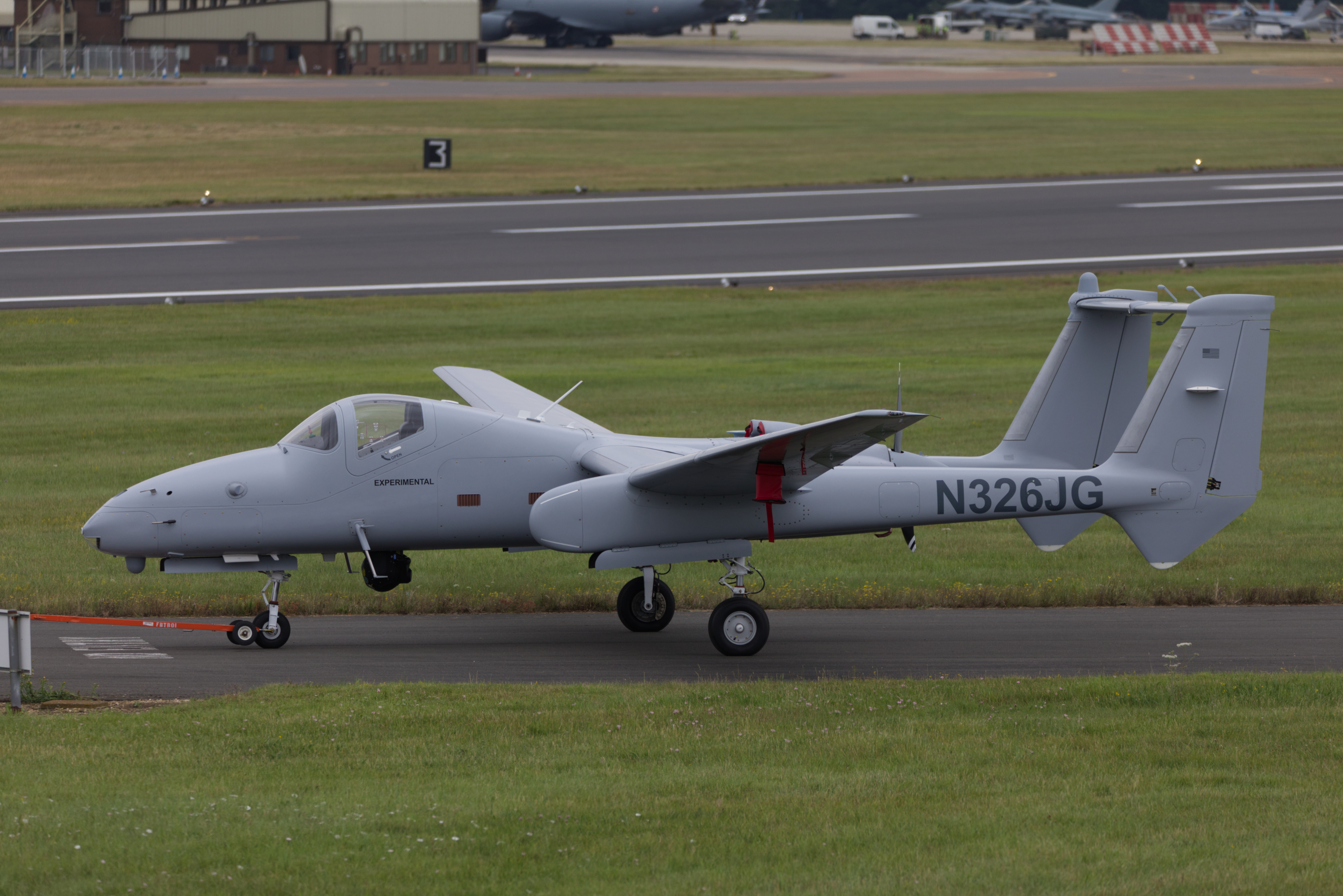 Northrop Grumman H03 N326JG 5D4_3986